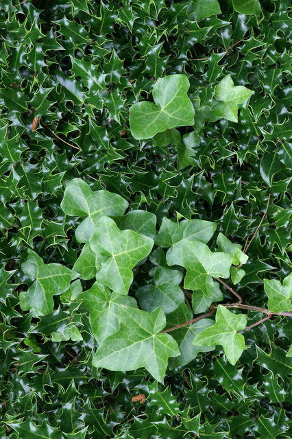 The holly and the ivy In a hedge at Speke Hall, but in July and not December.